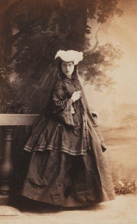 Portrait of Anne Elizabeth Clementina Duff (1847–1925), Marchioness Townshend as wife of John Townshend, 5th Marquess Townshend, daughter of James Duff, 5th Earl Fife.